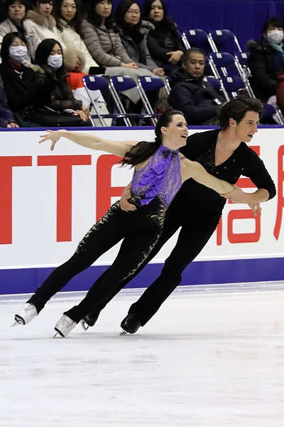 Tessa Virtue and Scott Moir at the 2016 NHK Trophy